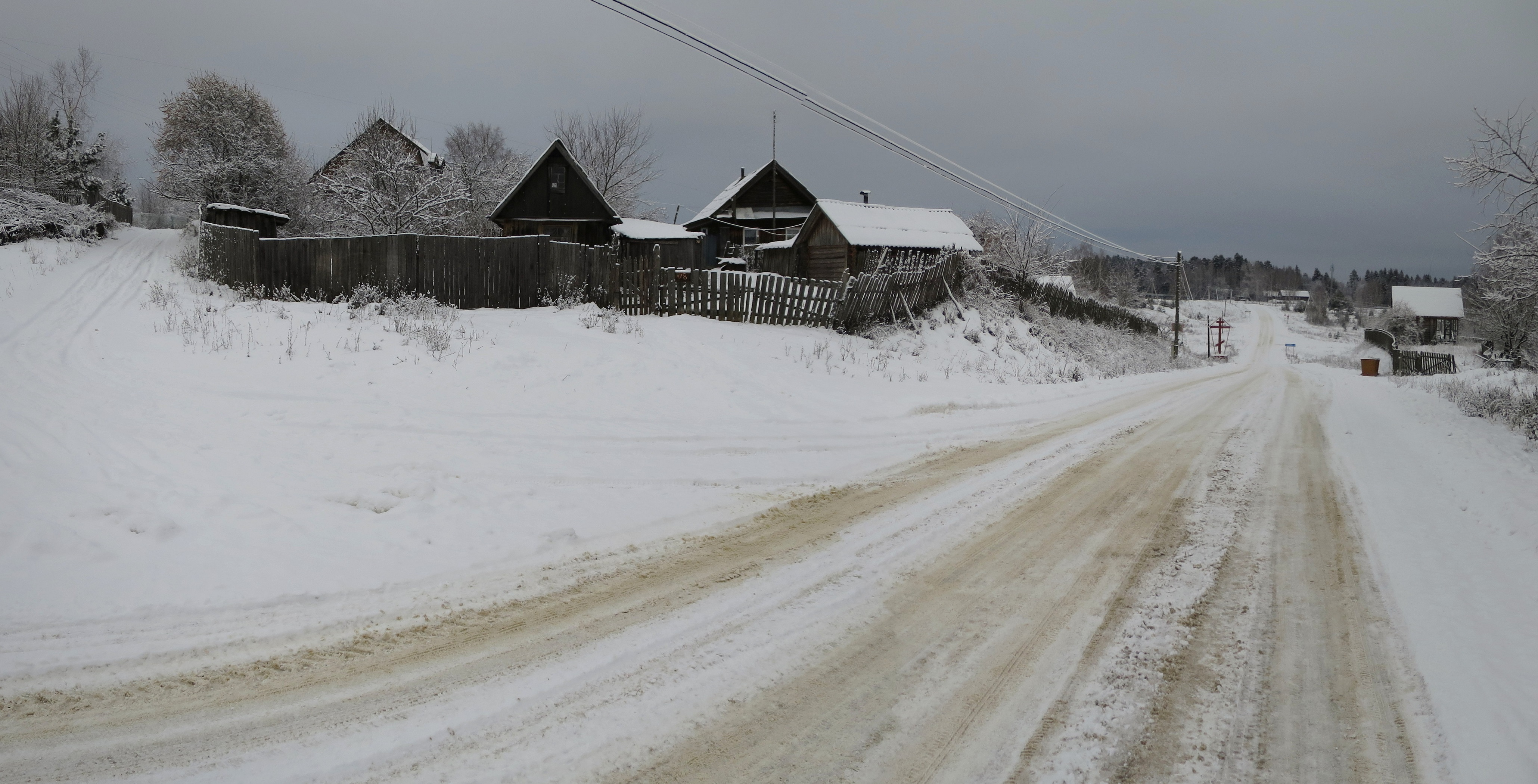 Arzamas district, Pustin'